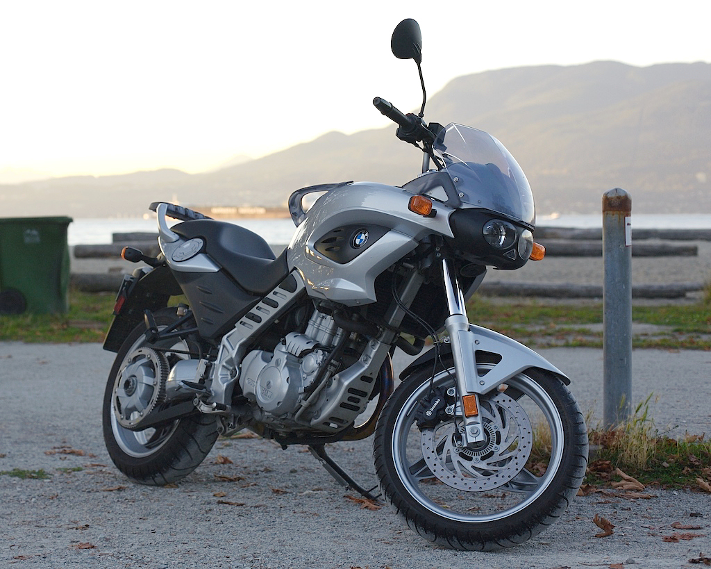 2002 BMW F650CS motorcycle 3/4 view